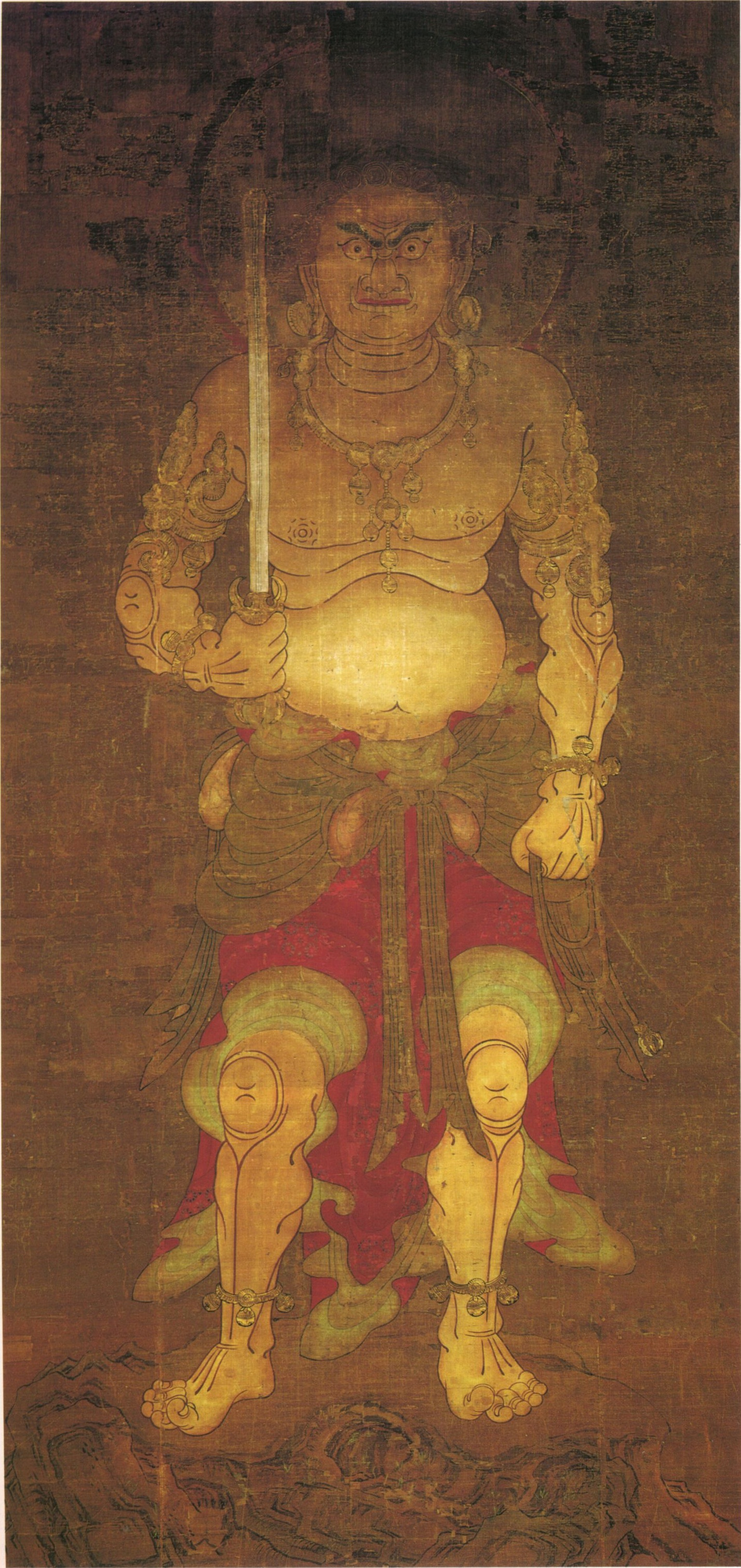 Fudō Myōō (Acala) (絹本著色不動明王像, kenpon chakushoku fudō myōō zō) or Yellow Fudō (黄不動, kifudō). Hanging scroll, 168.2 cm x 80.3 cm. Color on silk. A variant copy after 10th century Image in Mii-dera, Ōtsu,Japan. Located in Manshu-in, Kyoto, Japan. The scroll has been designated as National Treasure of Japan in the category paintings.